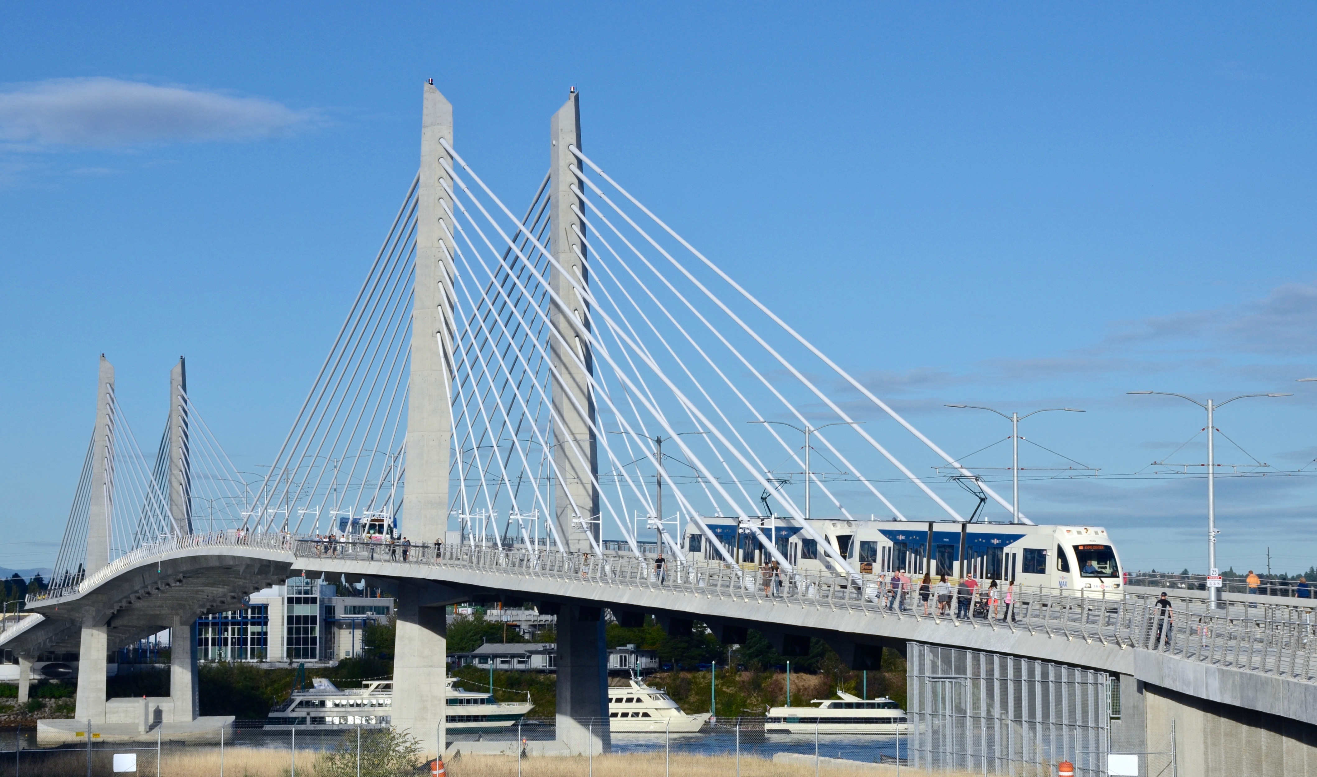 The Tilikum Crossing bridge (in Portland, Oregon) viewed from the west, with a MAX light rail train and a bus both westbound on the bridge.